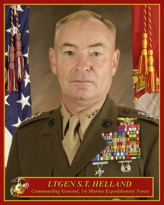 Lieutenant General Samuel T. Helland, USMC, commanding general I Marine Expeditionary Force